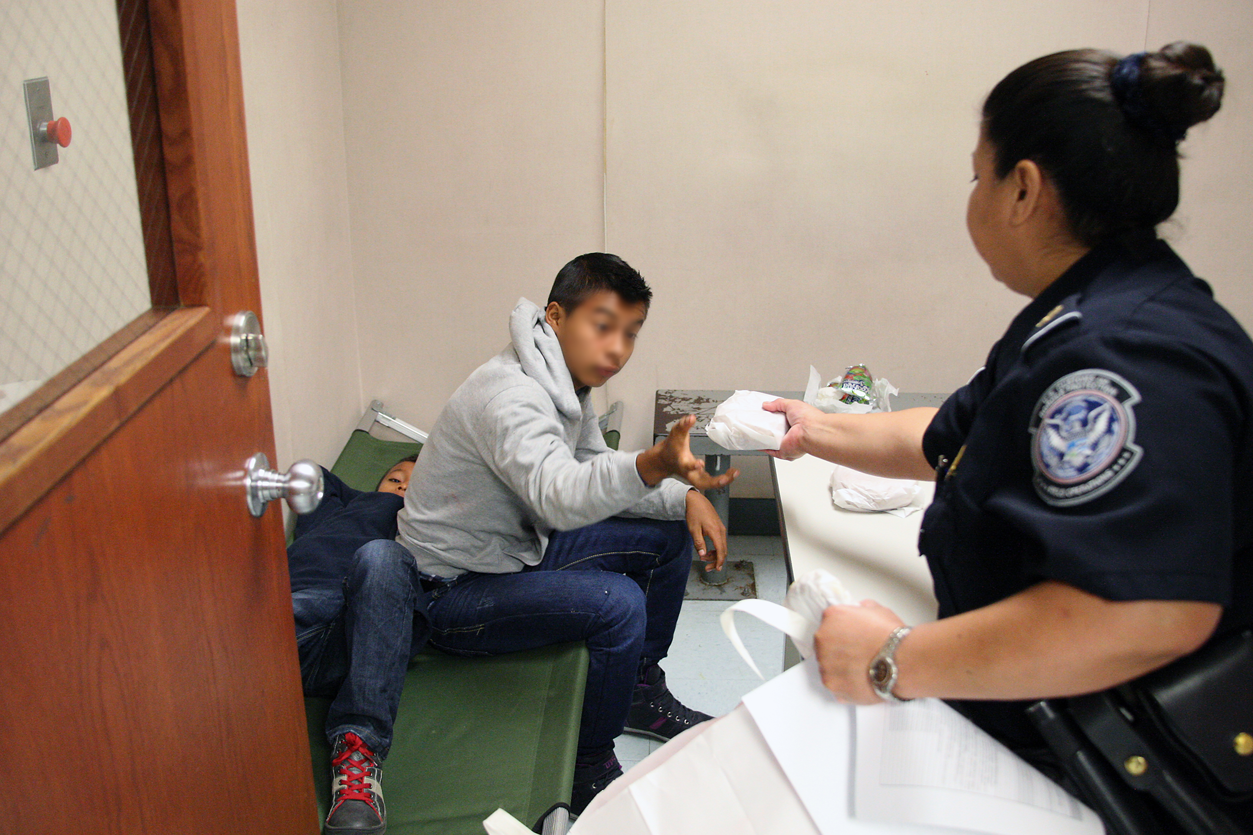 South Texas Border - U.S. Customs and Border Protection provide assistance to unaccompanied alien children after they have crossed the border into the United States. Seen here during processing a Custom's Field Officer provides food to unaccompanied children. Photo provided by: Eddie Perez